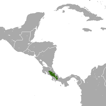 Talamancan Small-eared Shrew (Cryptotis gracilis) range